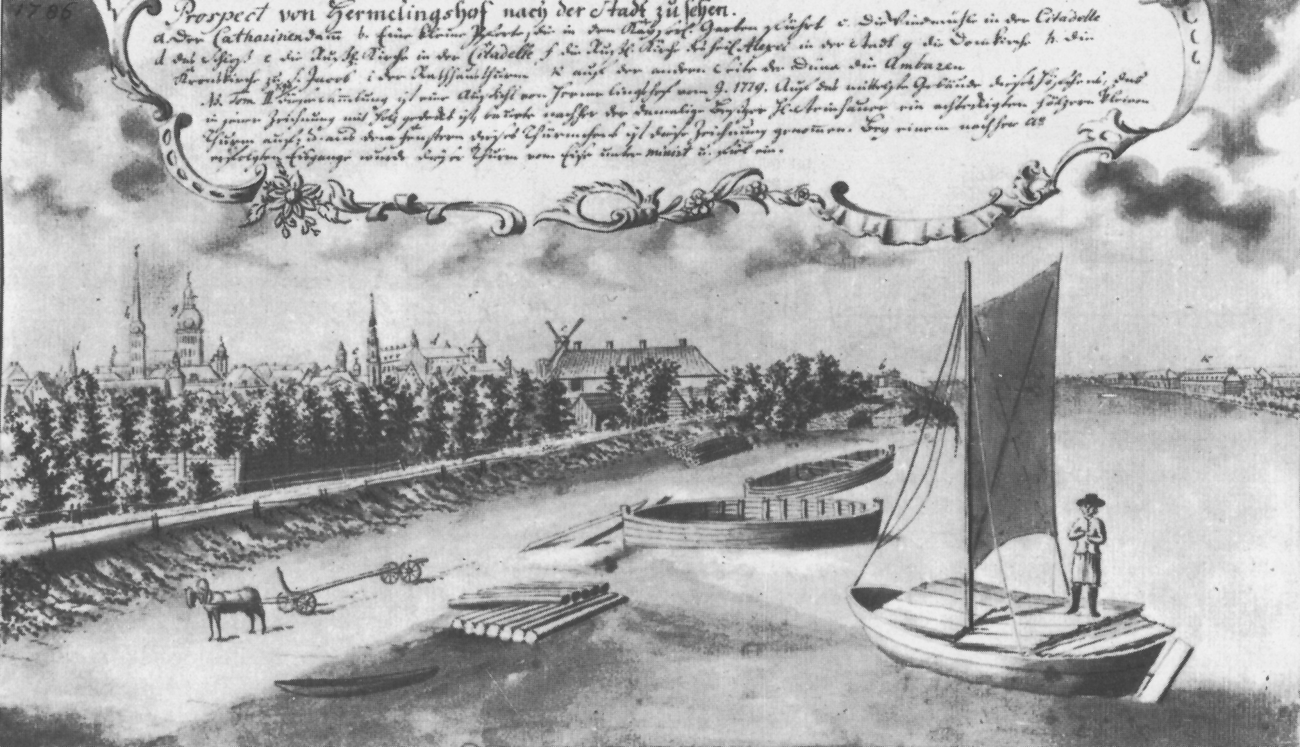 A view of Riga